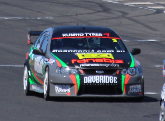 2013 Kumho Tyres V8 Touring Car champion Shae Davies at Sydney Motorsport Park.